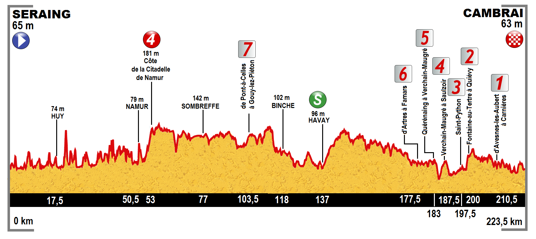 Profile of the 4th stage of the Tour de France 2015